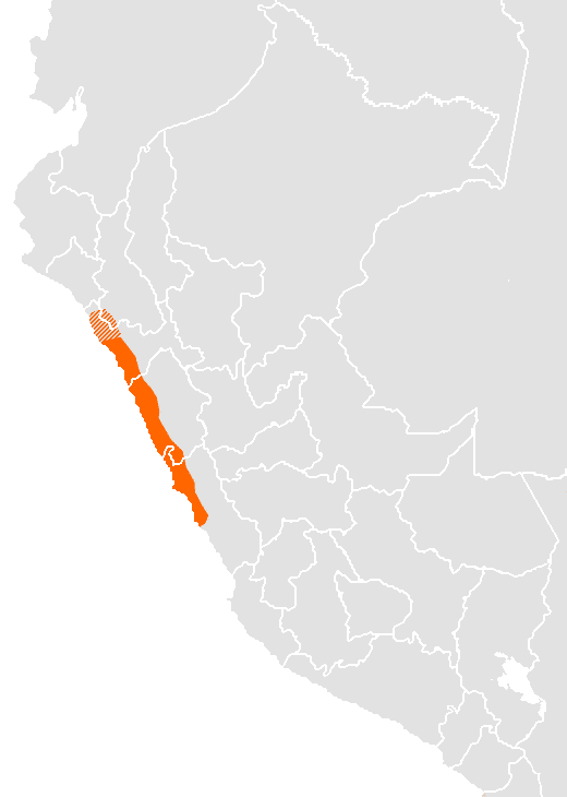 Maximal extension of Quingnam language before substitution by quechua and spanish languages. Source: Torero, Alfredo (1984). «El comercio lejano y la difusión del quechua. El caso del Ecuador». Andina: pp. 367-402.